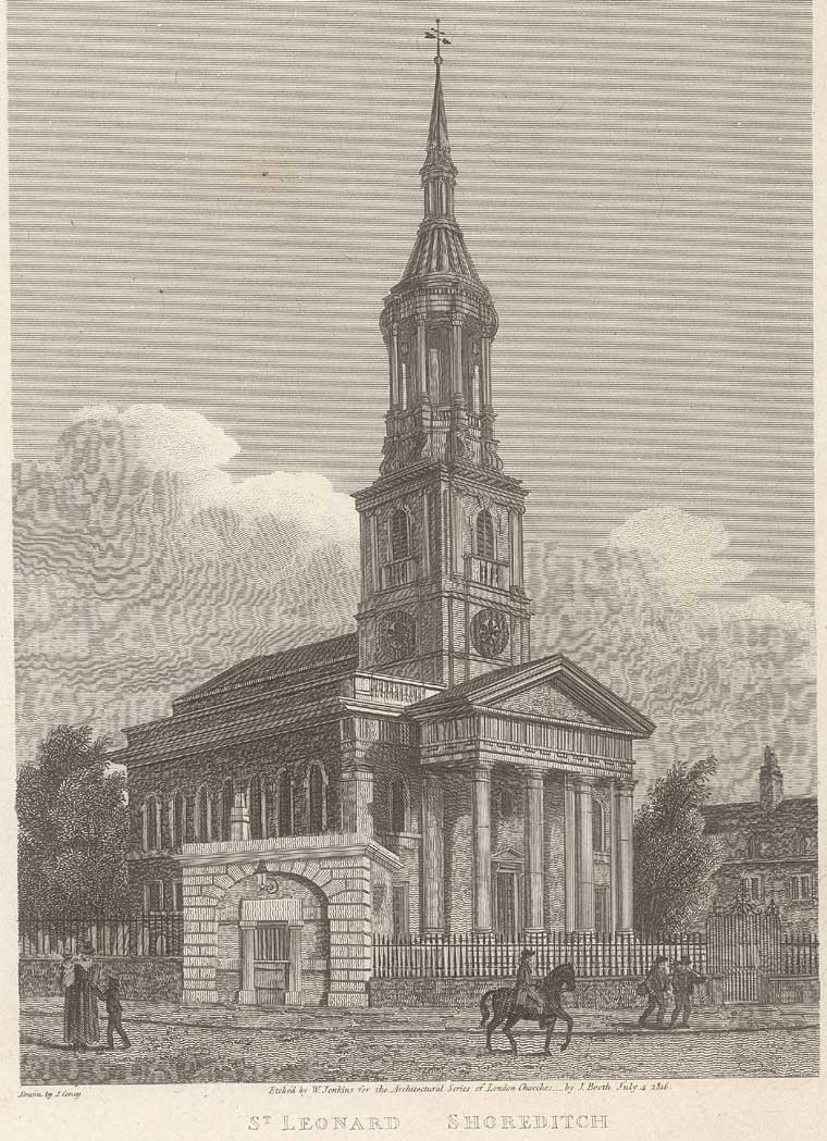 St Leonard's, Shoreditch Category:Churches in Hackney Category:Buildings and structures in Hackney